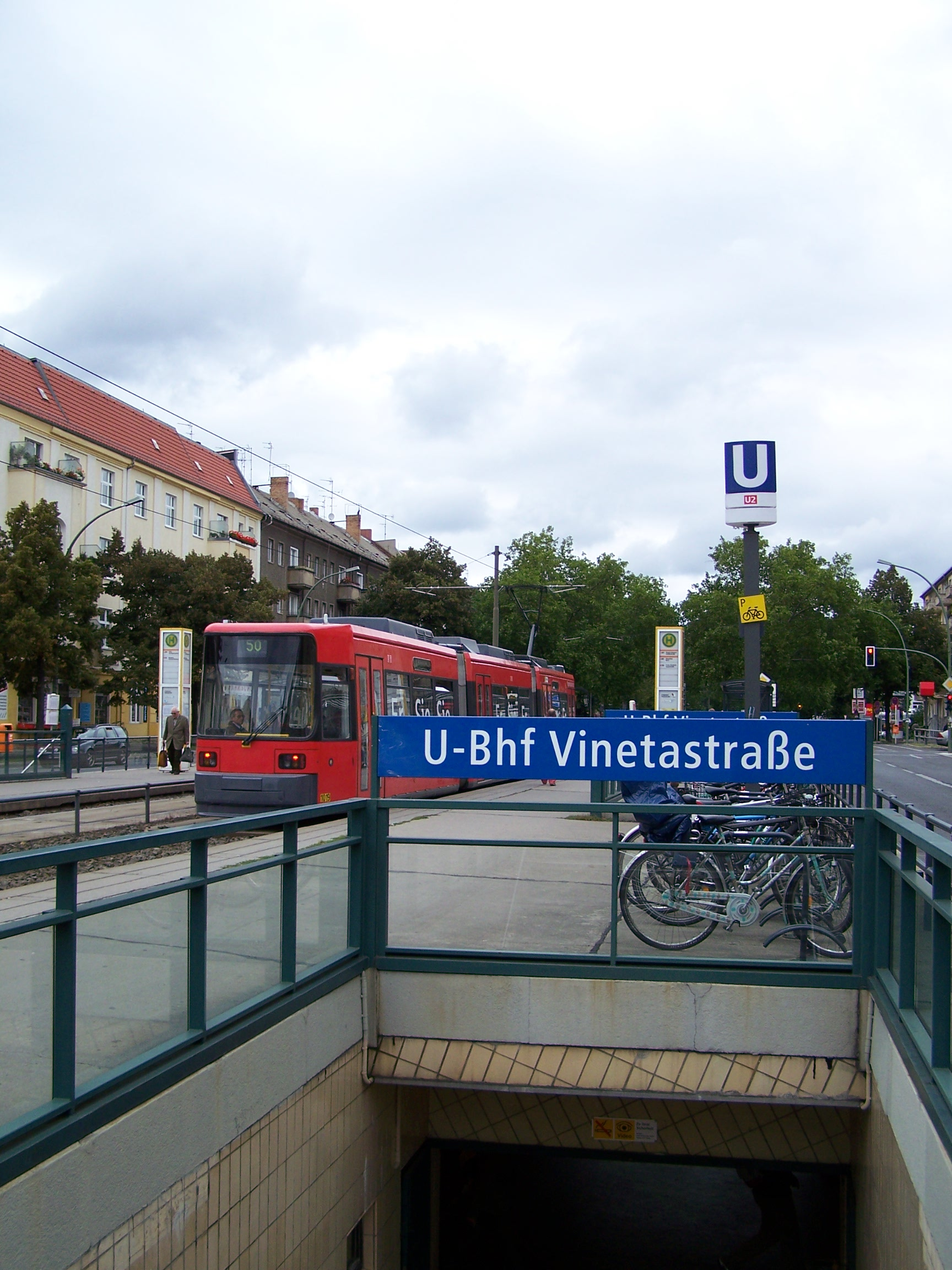 the tramway station „U-Bahnhof Vinetastraße“, in the foreground the entrance to the underground station of the same name, Berlin, Germany